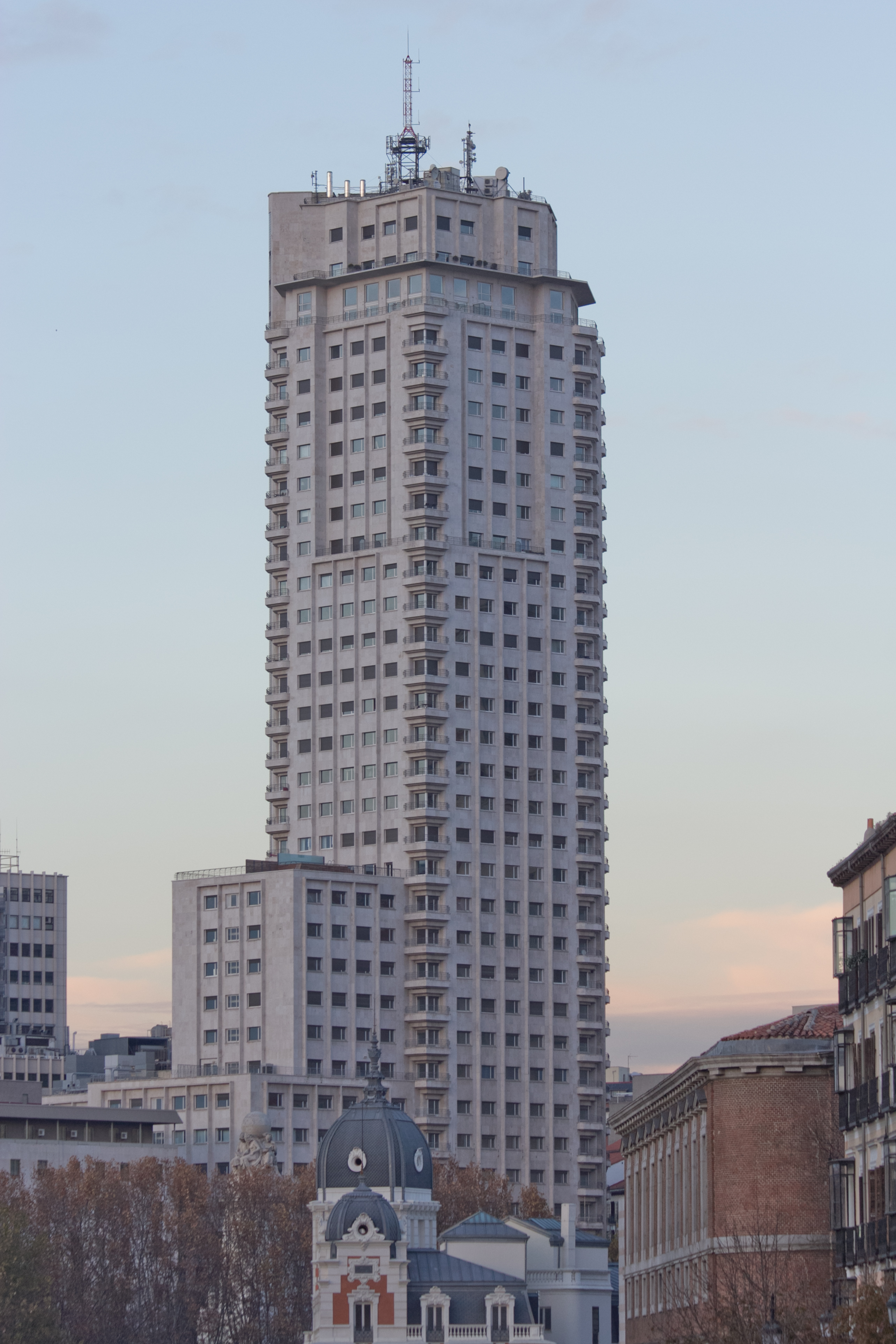 Tower of Madrid, Madrid, Spain.